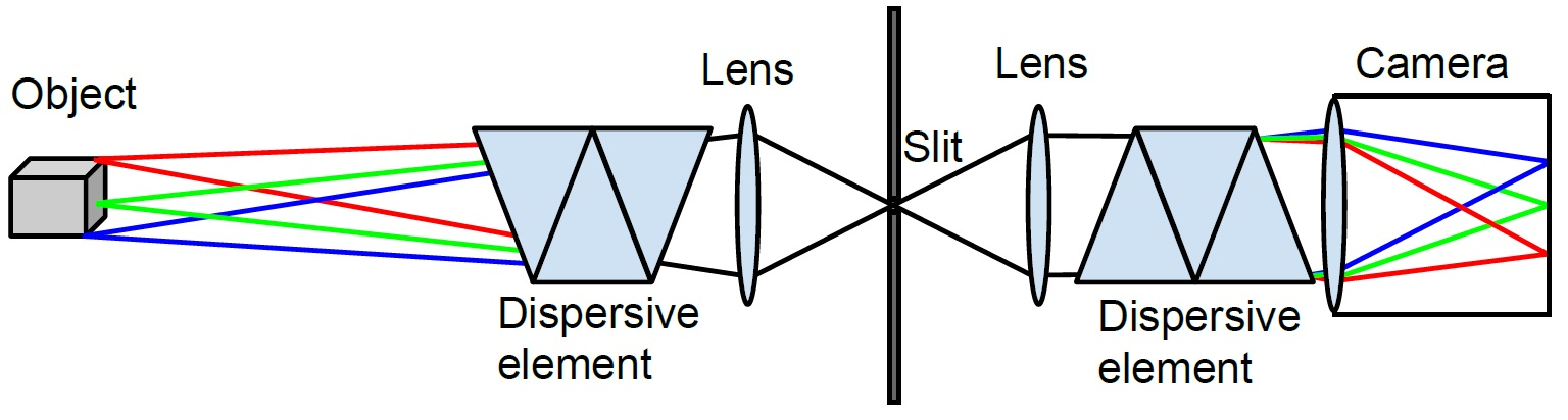 In the slit plane, there is a dispersed image of the object. (Only the rays to the camera are shown). For spatiospectral scanning, the spectroscopic system is moved along the direction of dispersion.